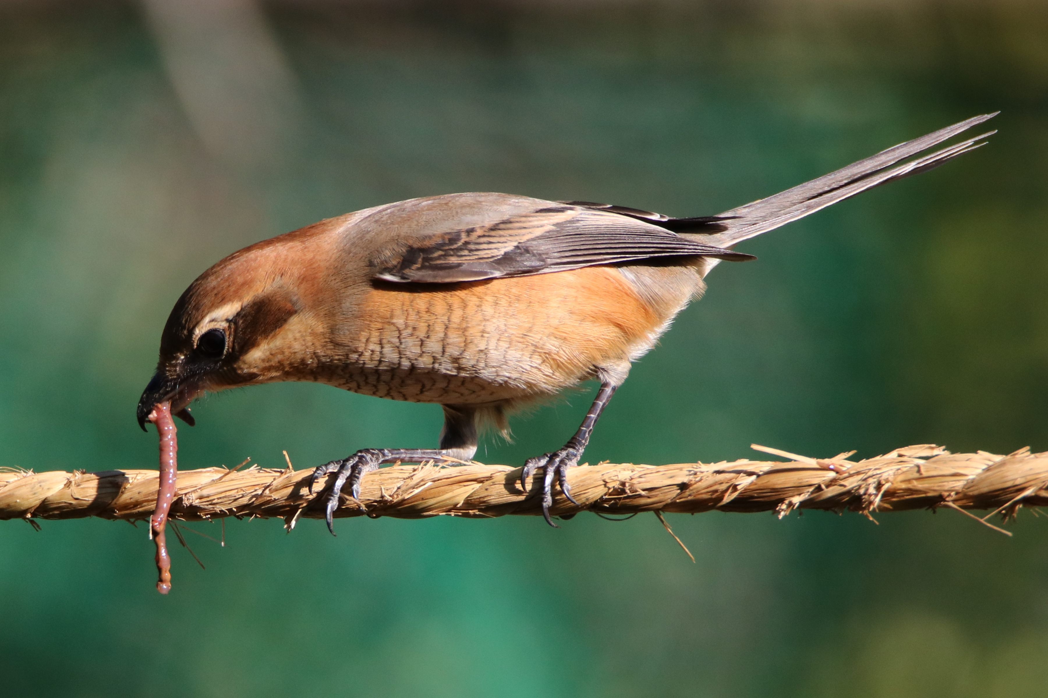 Lanius bucephalus eating Earthworm in Kasugai, Aichi prefecture, Japan.